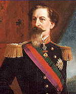 Cropped